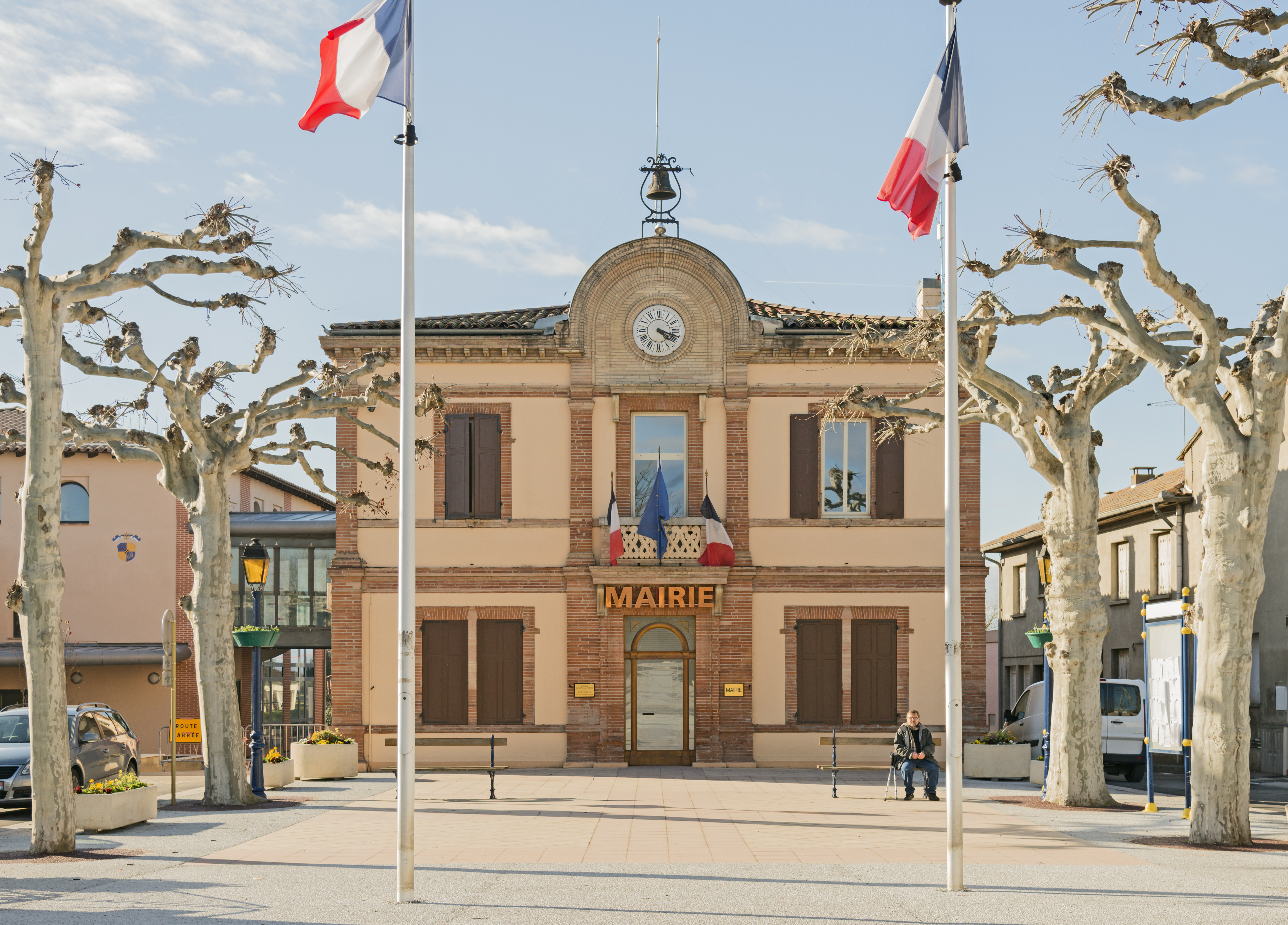 Castelginest. Facade of Town hall.